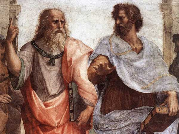 The School of Athens (cropped), Fresco, Stanza della Segnatura, Palazzi Pontifici, Vatican.